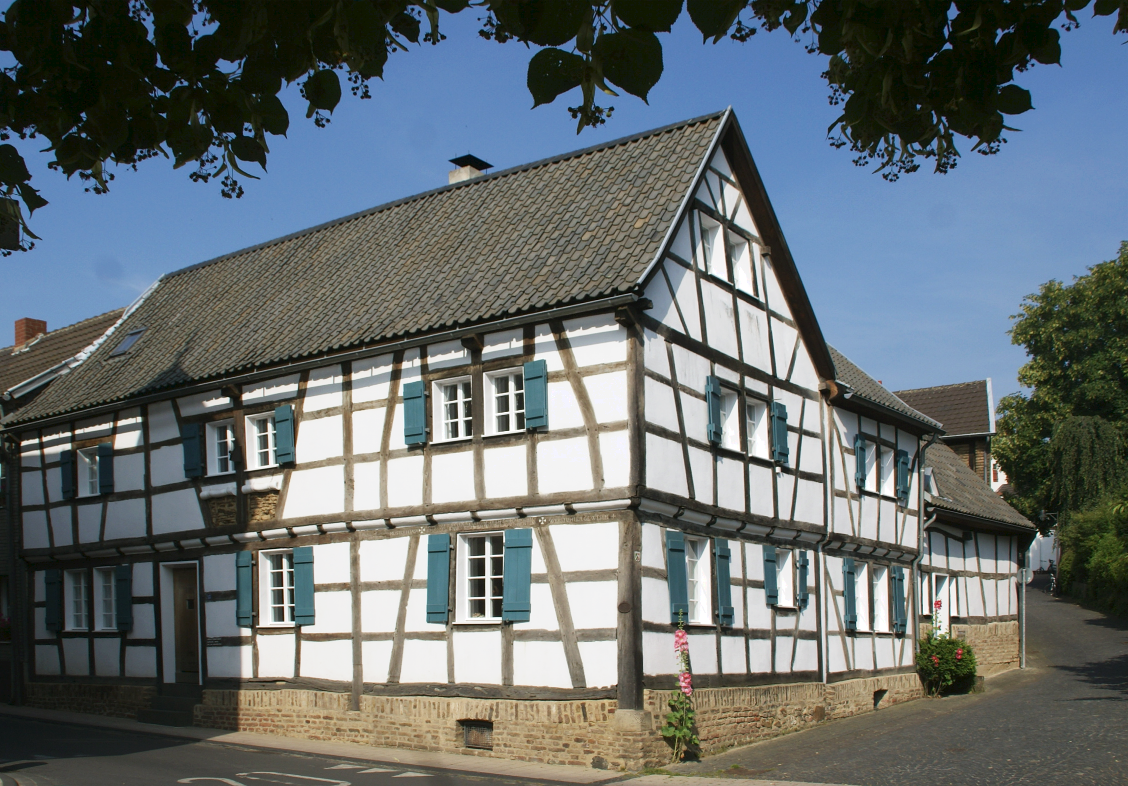 Half-timbered house in Alfter, Hertersplatz 13